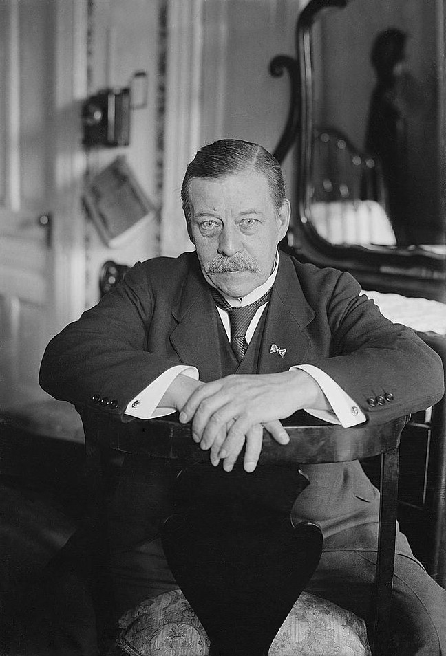 Charles William Bowerman in 1917 looking at camera